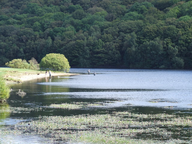 Tunstall Reservoir Fishing on Tunstall Reservoir.